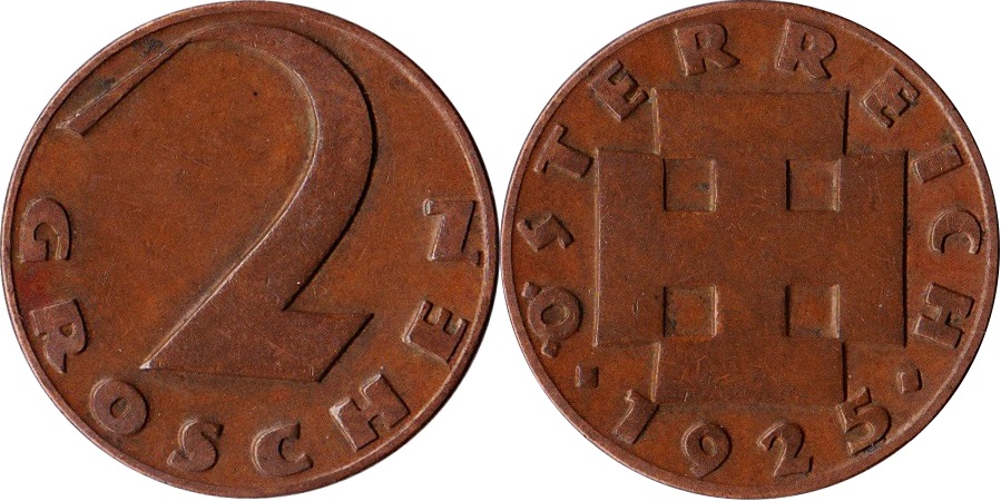 Coin from Austria - 2 groschen, 1925